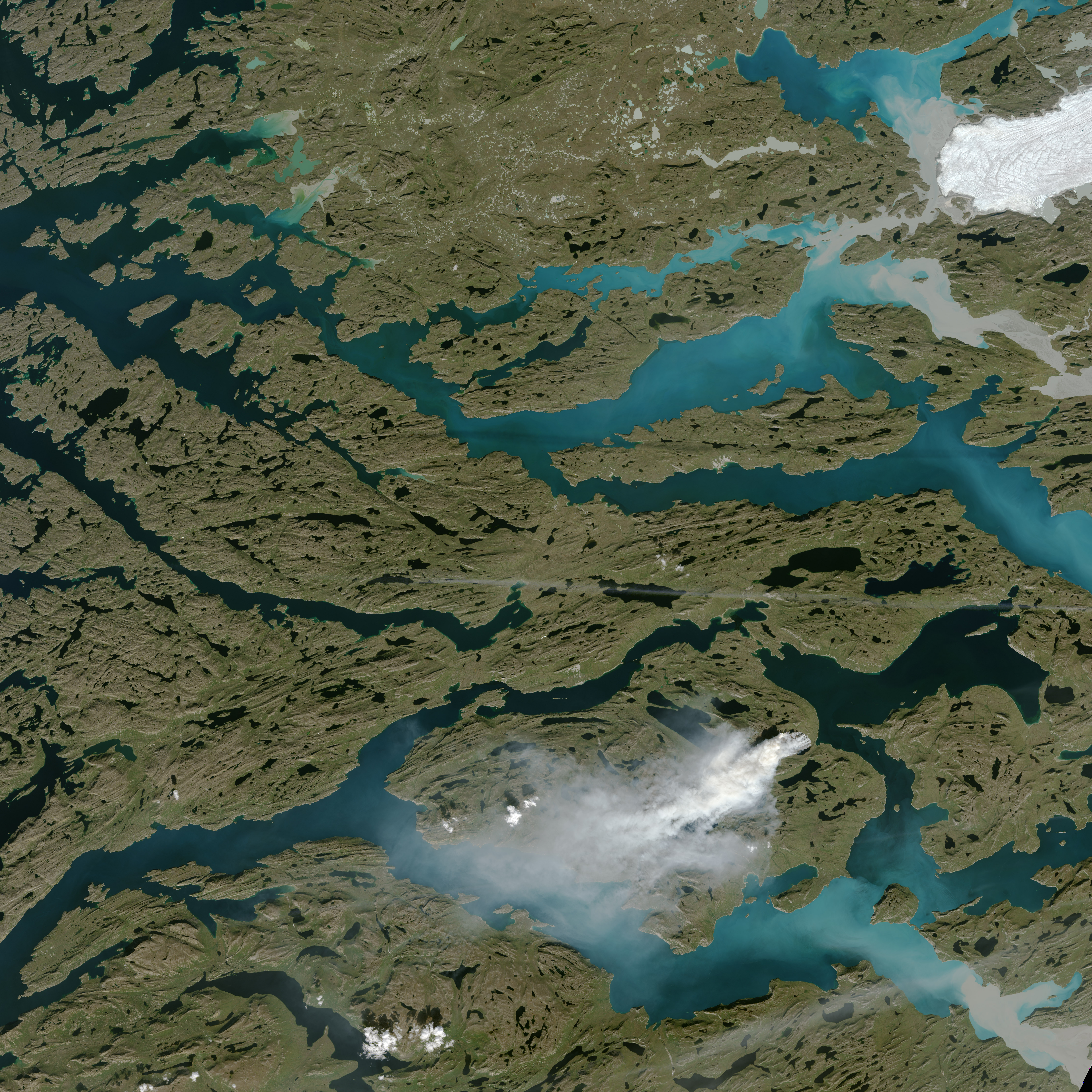 Peat wildfire in Greenland imaged from space on August 3, 2017